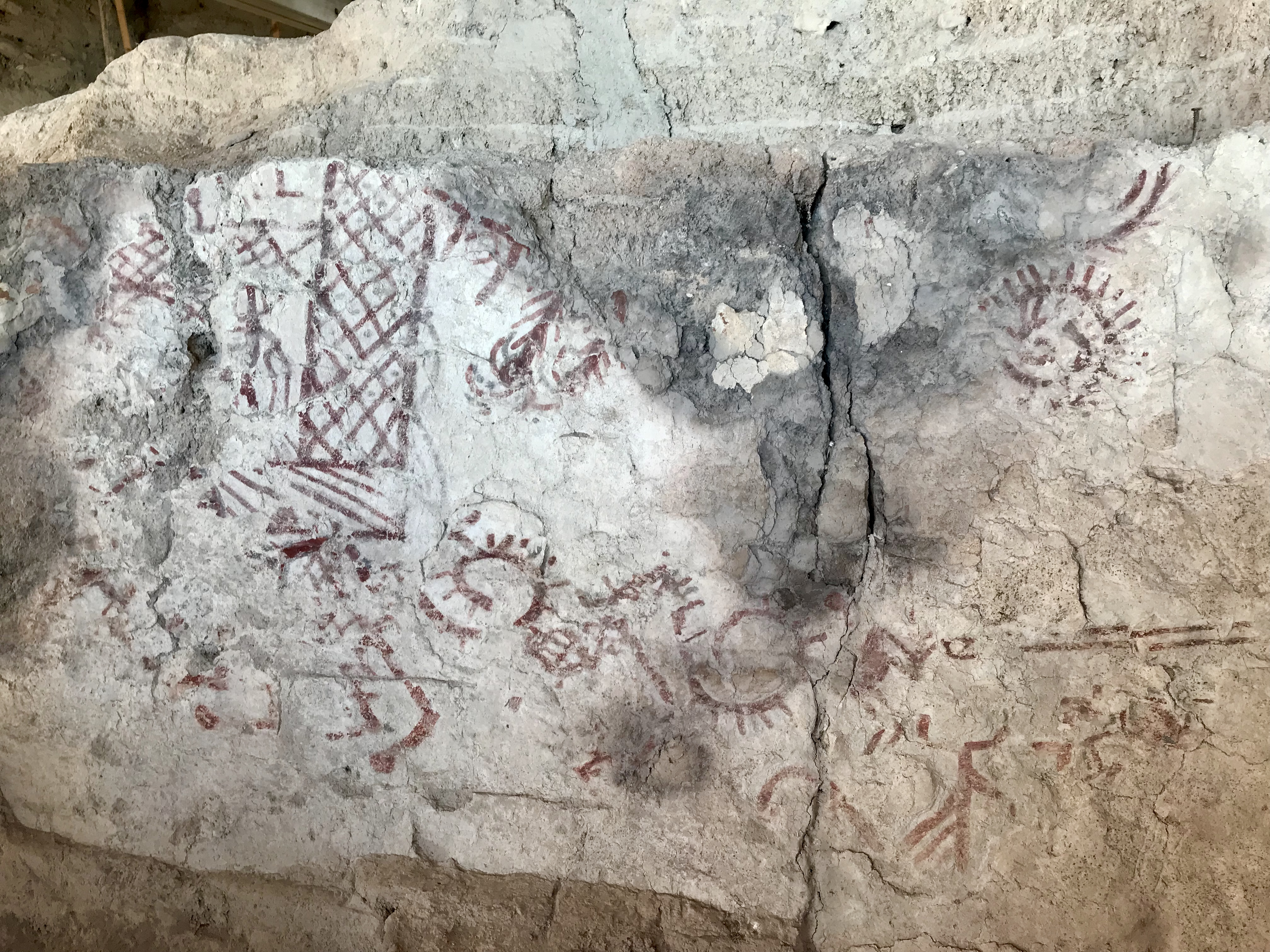 Mural paintings in Arslantepe Ruins, Malatya, Turkey.